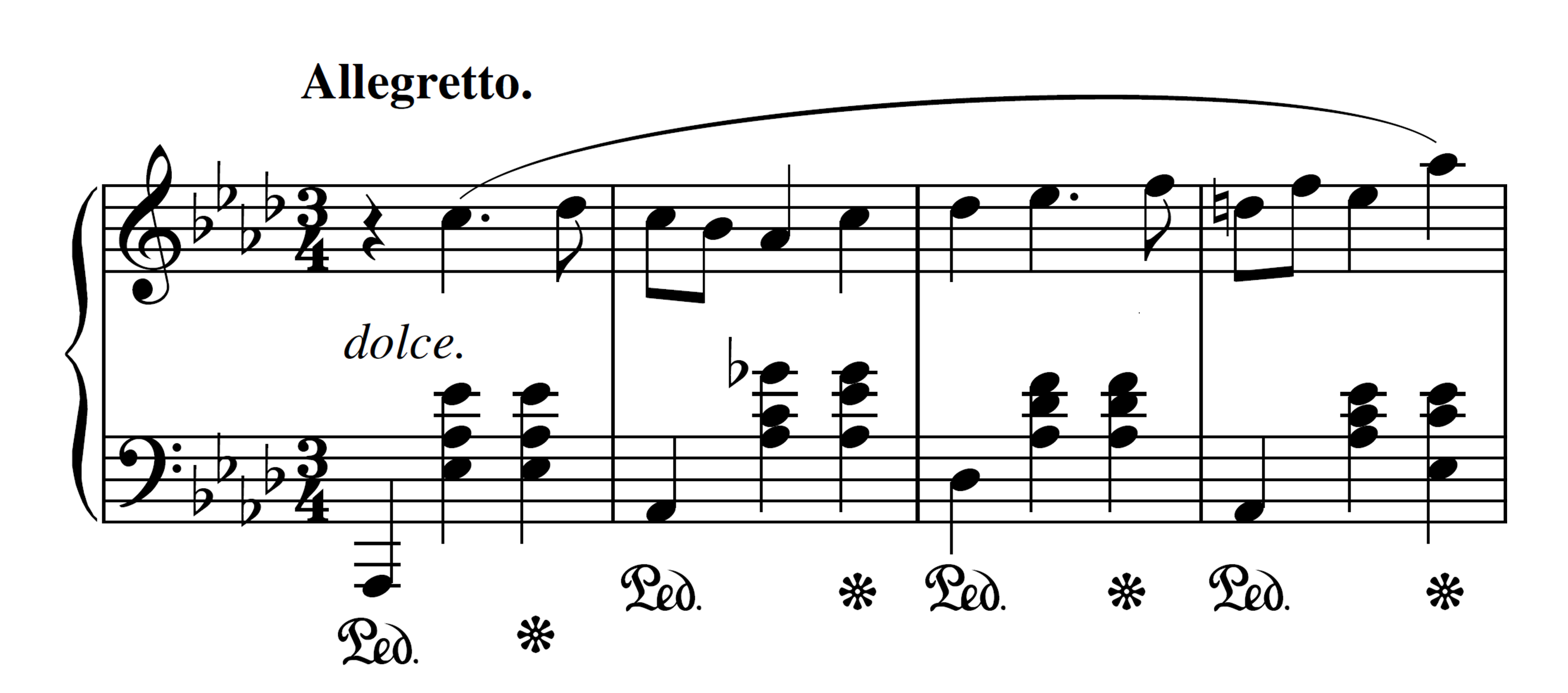 The first 4 bars of Chopin's Mazurka in A-flat Op. 59 No. 2